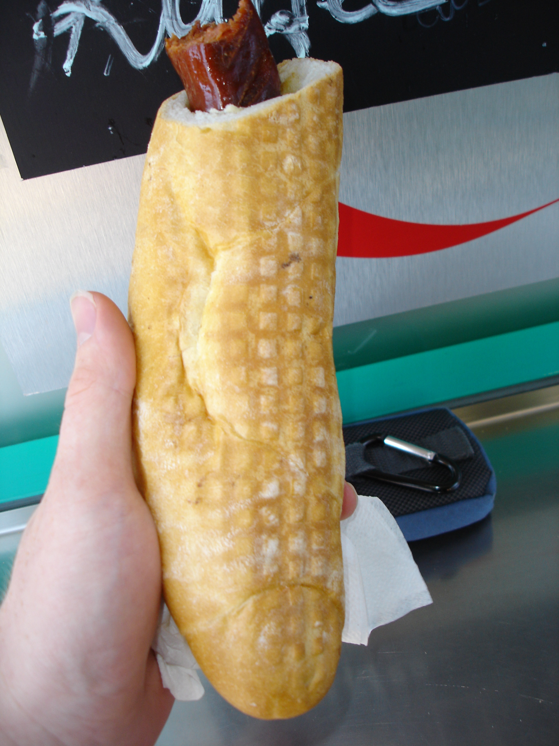 An Austrian "hot dog with grill sausage." In Austria any sausage placed into a piece of hollowed-out baguette bread is called a "hot dog."